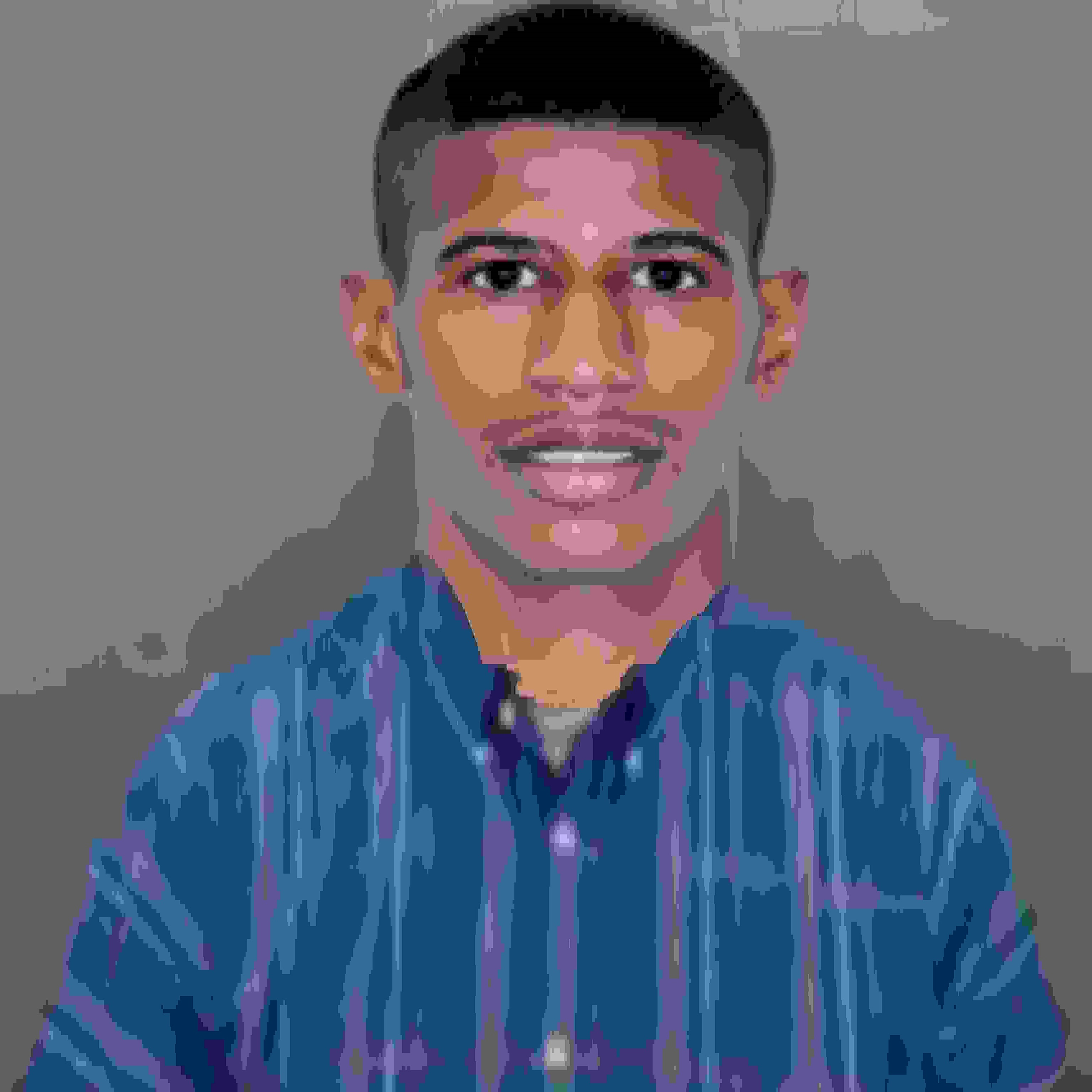 Muteb Mansour portrait taken for his debut at Al Batin